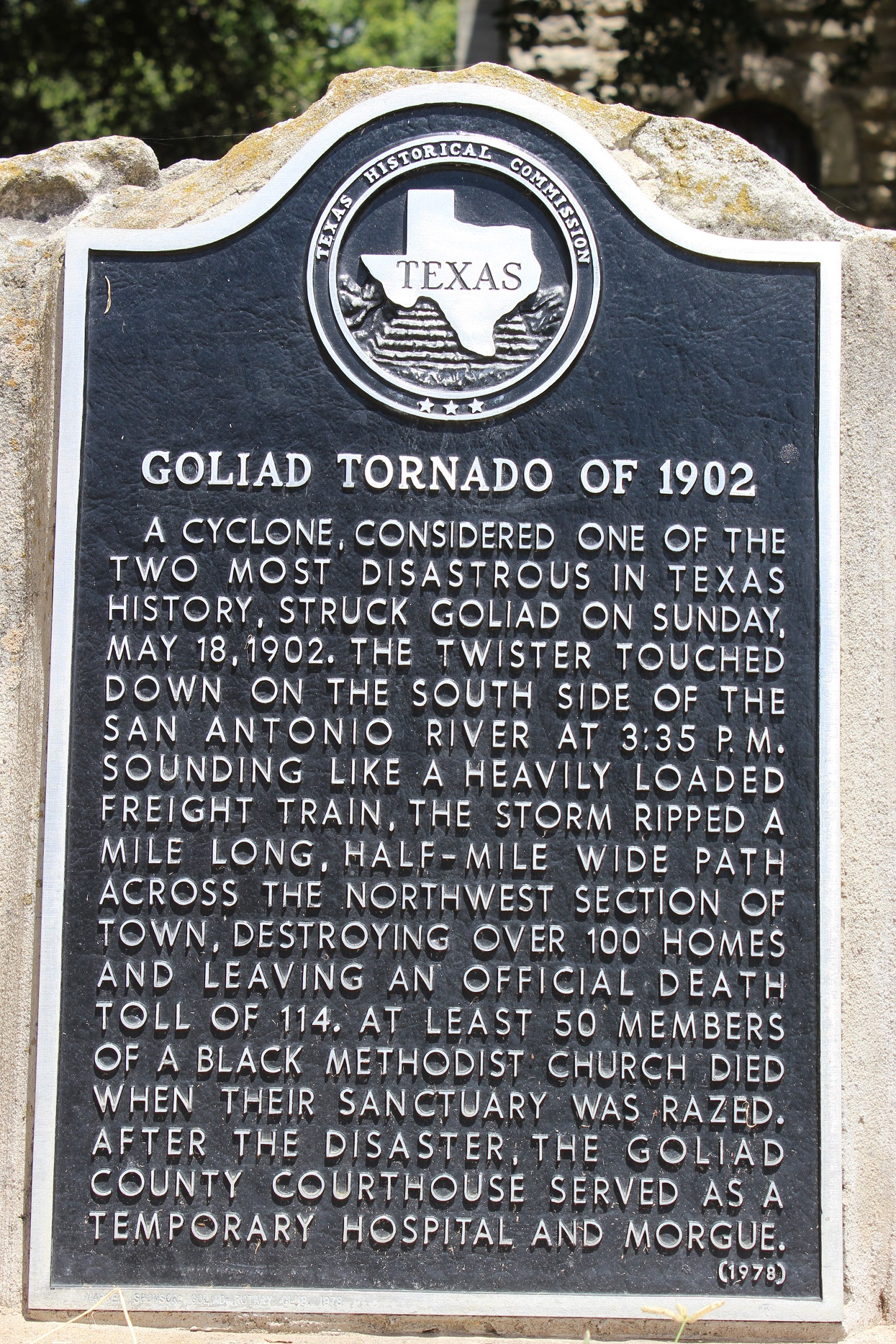 Goliad Tornado of 1902. A cyclone, considered one of the two most disastrous in Texas history, struck Goliad on Sunday, May 18, 1902. The twister touched down on the south side of the San Antonio River at 3:35 p.m. Sounding like a heavily loaded freight train, the storm ripped a mile long, half-mile wide path across the northwest section of town, destroying over 100 homes and leaving an official death toll of 114. At least 50 members of a black Methodist church died when their sanctuary was razed. After the disaster, the Goliad County courthouse served as a temporary hospital and morgue. (1978) Incise in base: Marker sponsor: Goliad Rotary Club, 1978 #2207